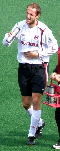 Roman Hubnik in action for FC Moscow